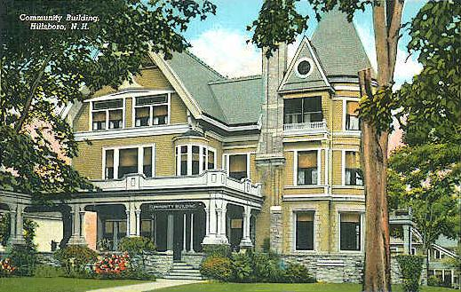 Community Building, Hillsborough, NH; from a c. 1922 postcard. The Governor John Butler Smith Mansion was built in 1893, and has been the Community Building since 1922. It houses the town offices, Fuller Public Library and D.A.R. Museum Room.